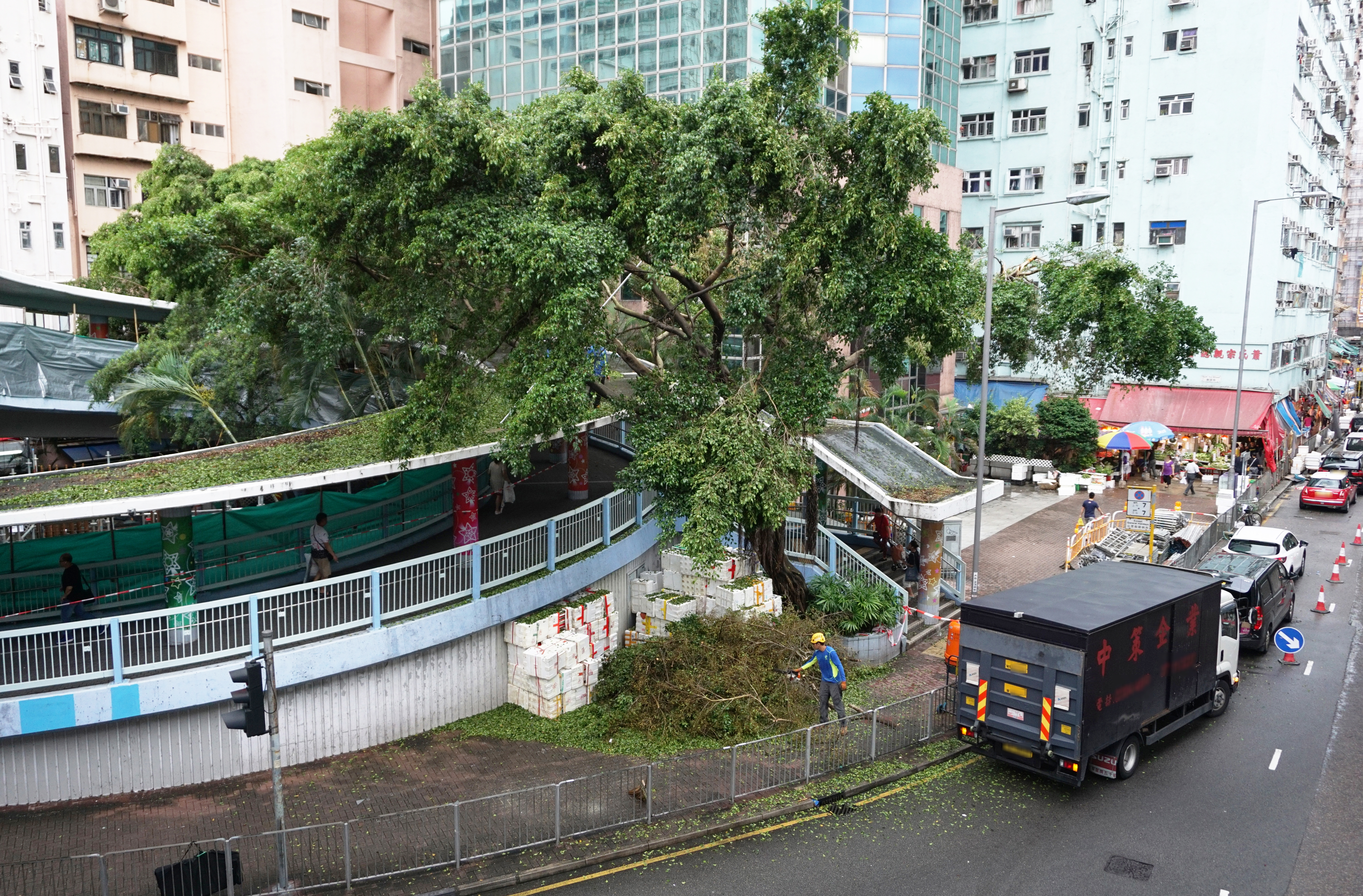 Typhoon Nida destruction in Mong Kok, Hong Kong.